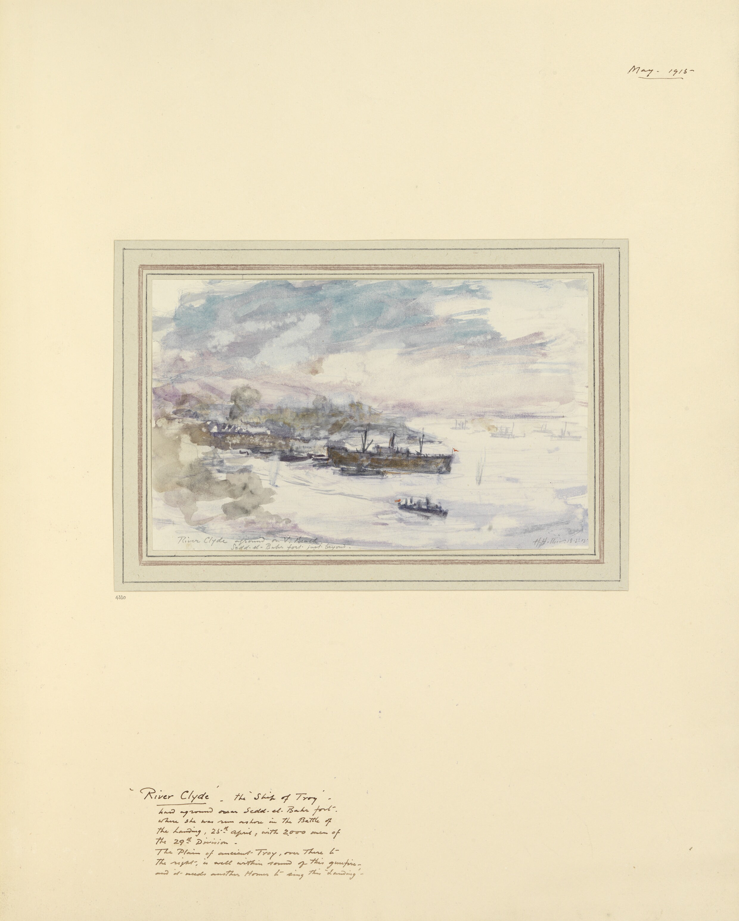 River Clyde Aground on V Beach, May 18th 1915 image: a view of the SS River Clyde run aground on V Beach surrounded by other smaller vessels and shrouded in smoke from artillery fire. Sedd-el-Bahr is just beyond, but is completely covered by smoke.